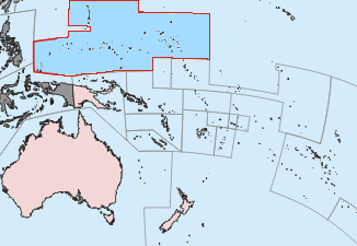 This is a locator map of the former Trust Territory of the Pacific Islands (TTPI).